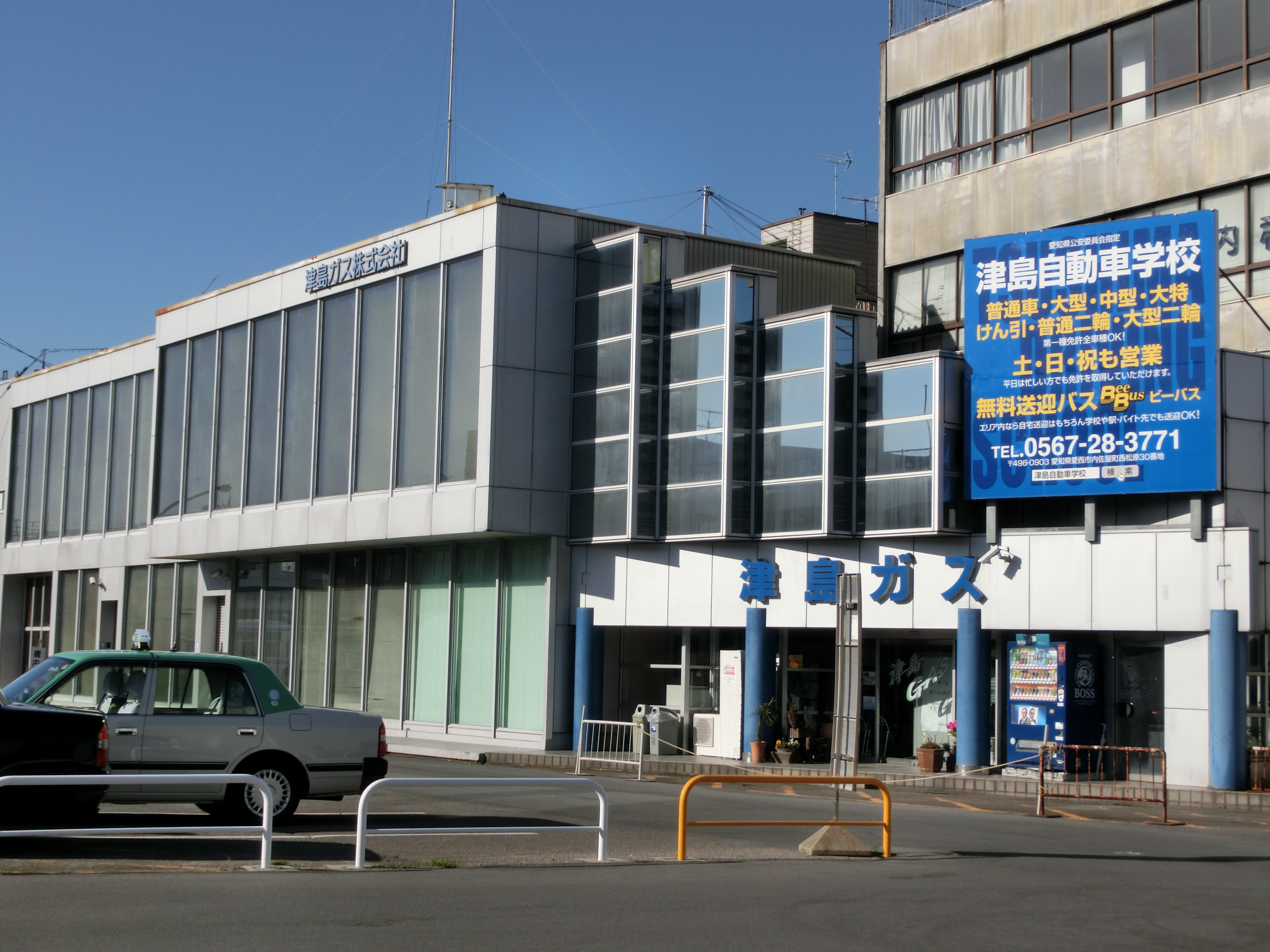 Tsushima Gas Head Office